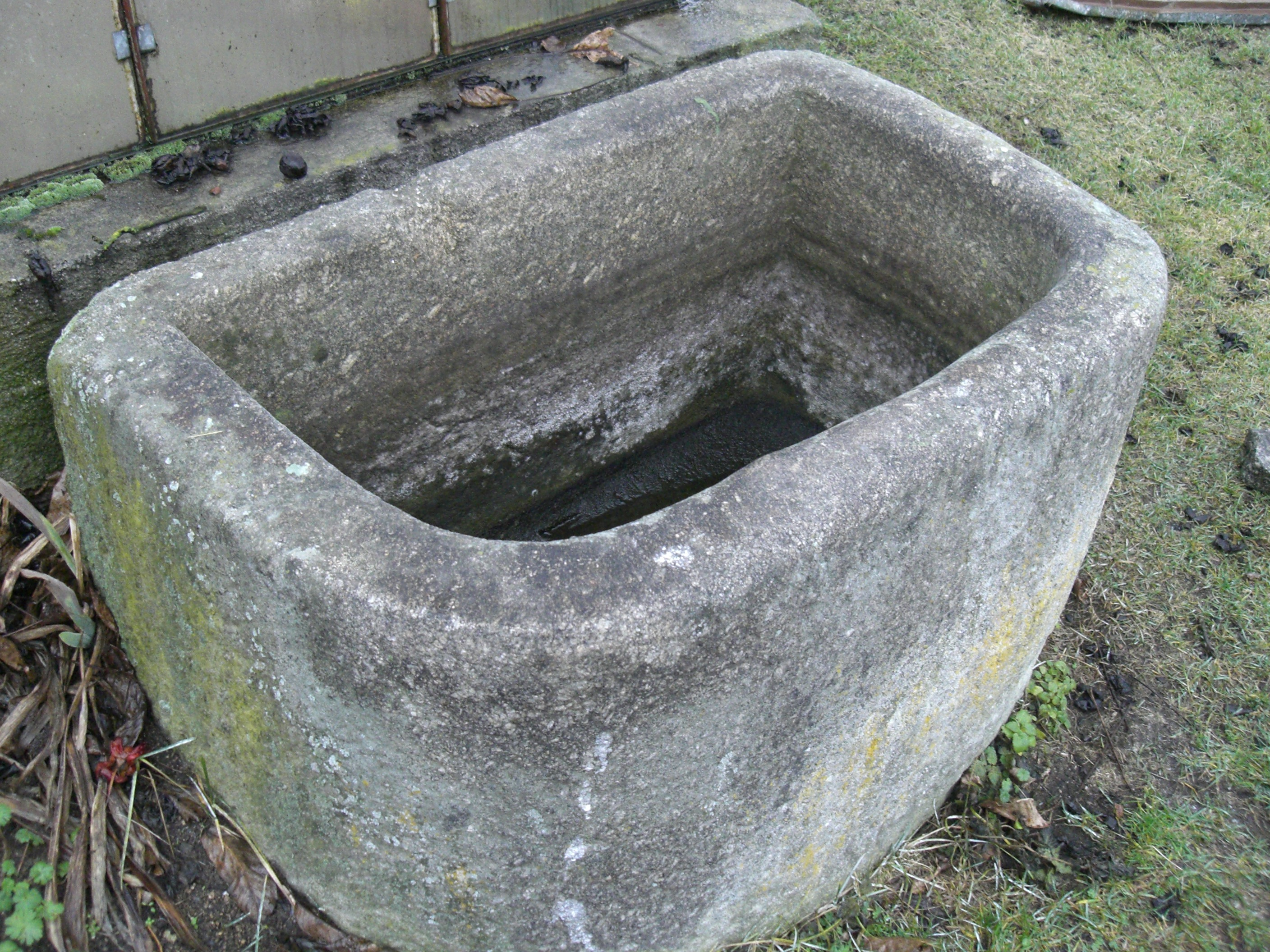 Container made from granite (so-called "stírka"), used as a water reservoir. Hrazany, Czech Republic.